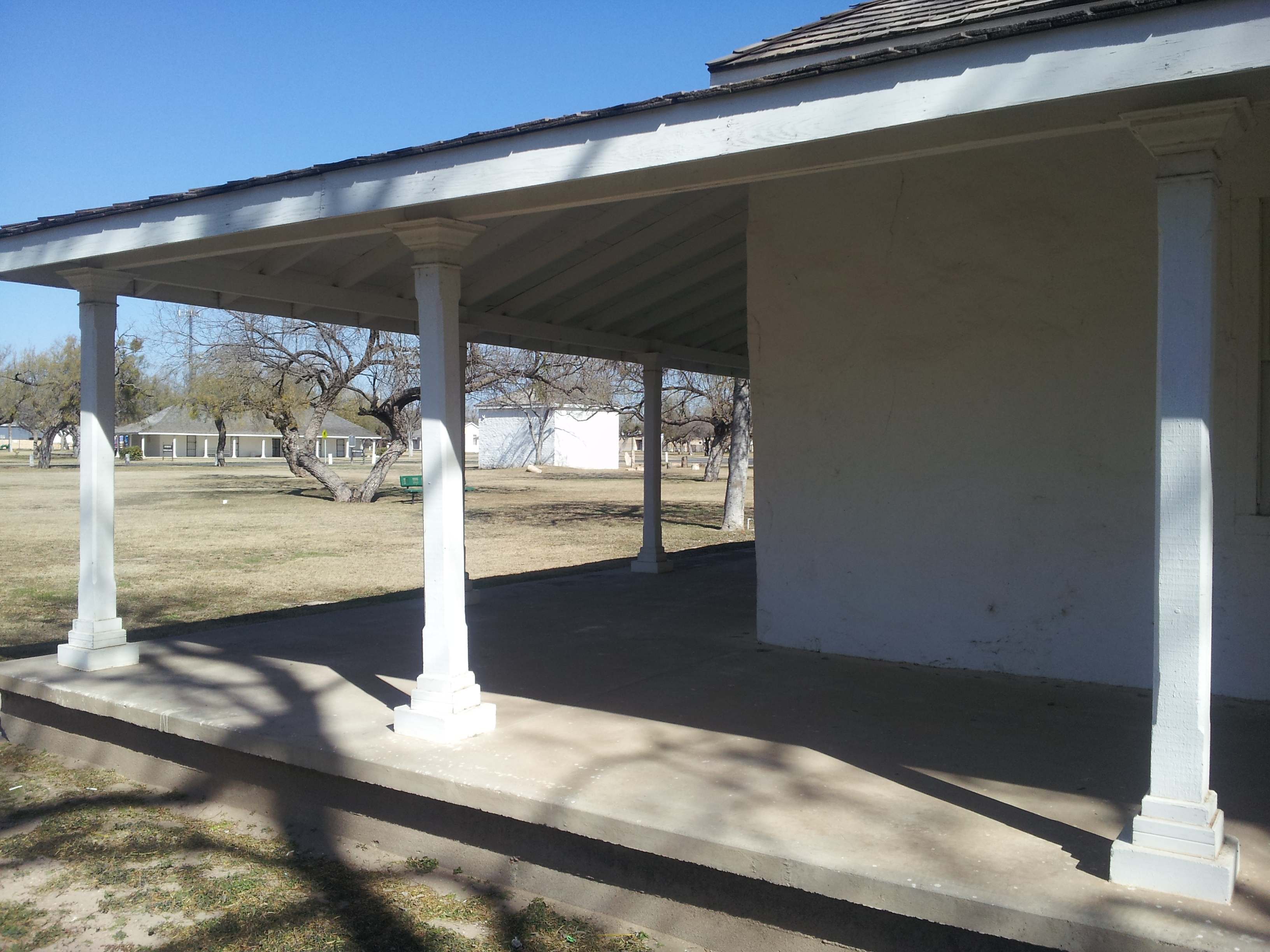 Fort Duncan Commanding officer headquarters